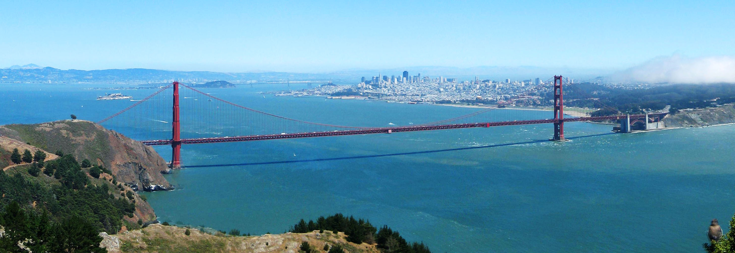 San Francisco and the Golden Gate bridge as viewed from Marin Headlands.